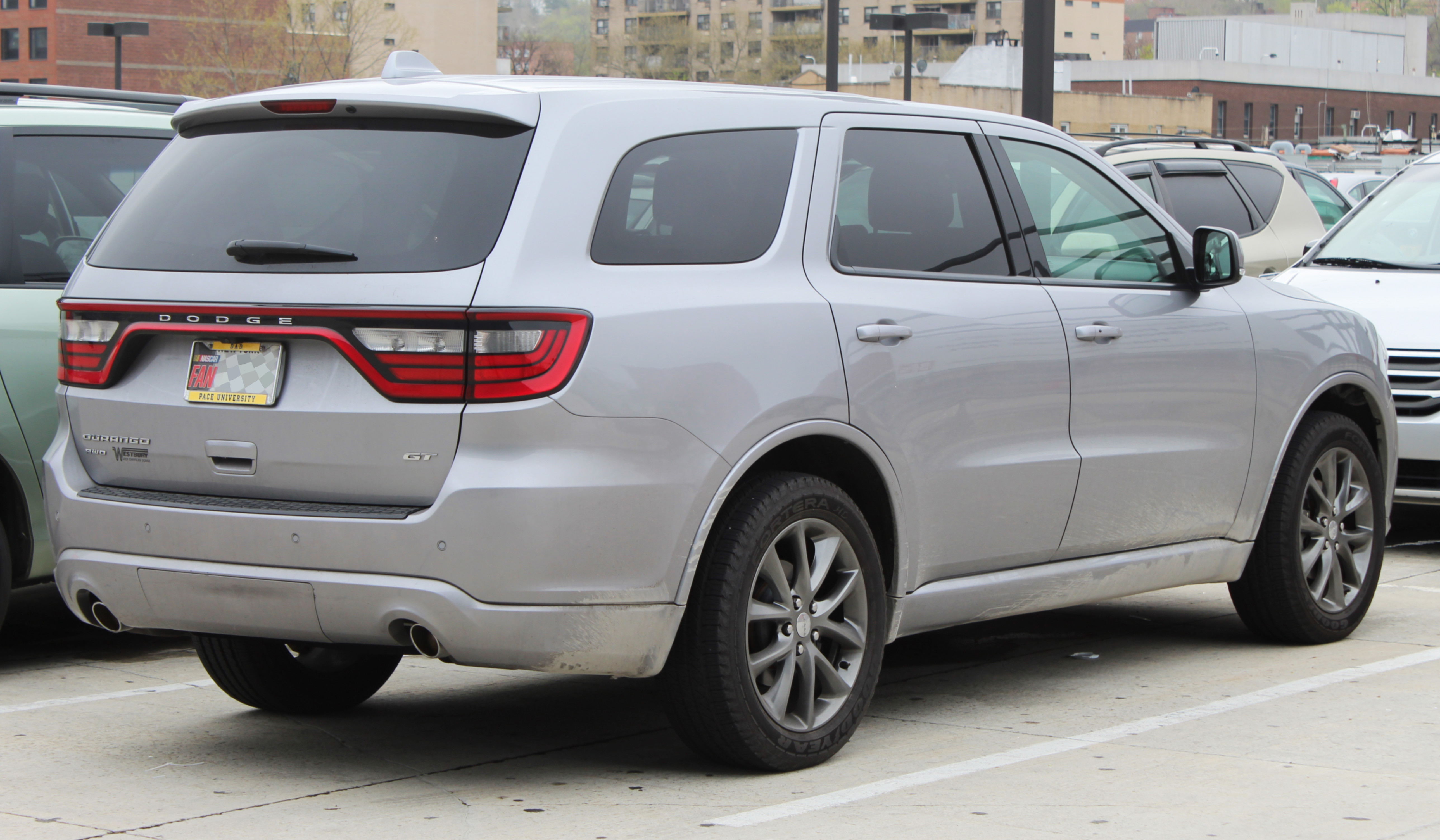 A 2017 Dodge Durango photographed in Bronx, New York, USA